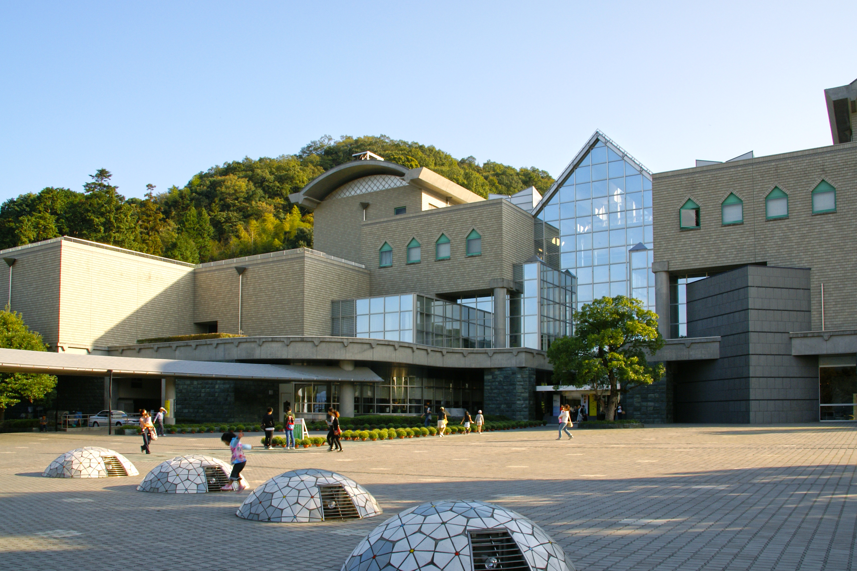 Tokushima 21st Century Cultural Information Center and Tokushima Prefectural Museum and The Tokushima Modern Art Museum of Tokushima Bunka-no-Mori Park in Tokushima, Tokushima prefecture, Japan